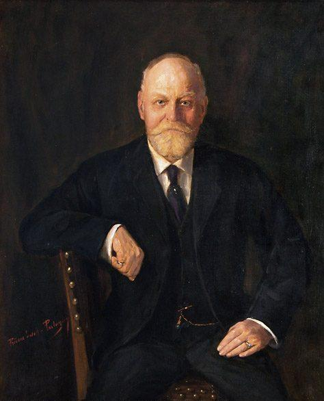 Portrait of Ludwig Nissen, German diamond merchandiser and art collector. The painting is the work of Princess Vilma Lwoff-Parlaghy, whose paintings were purchased on an auction by Ludwig Nissen himself after the artist's death.